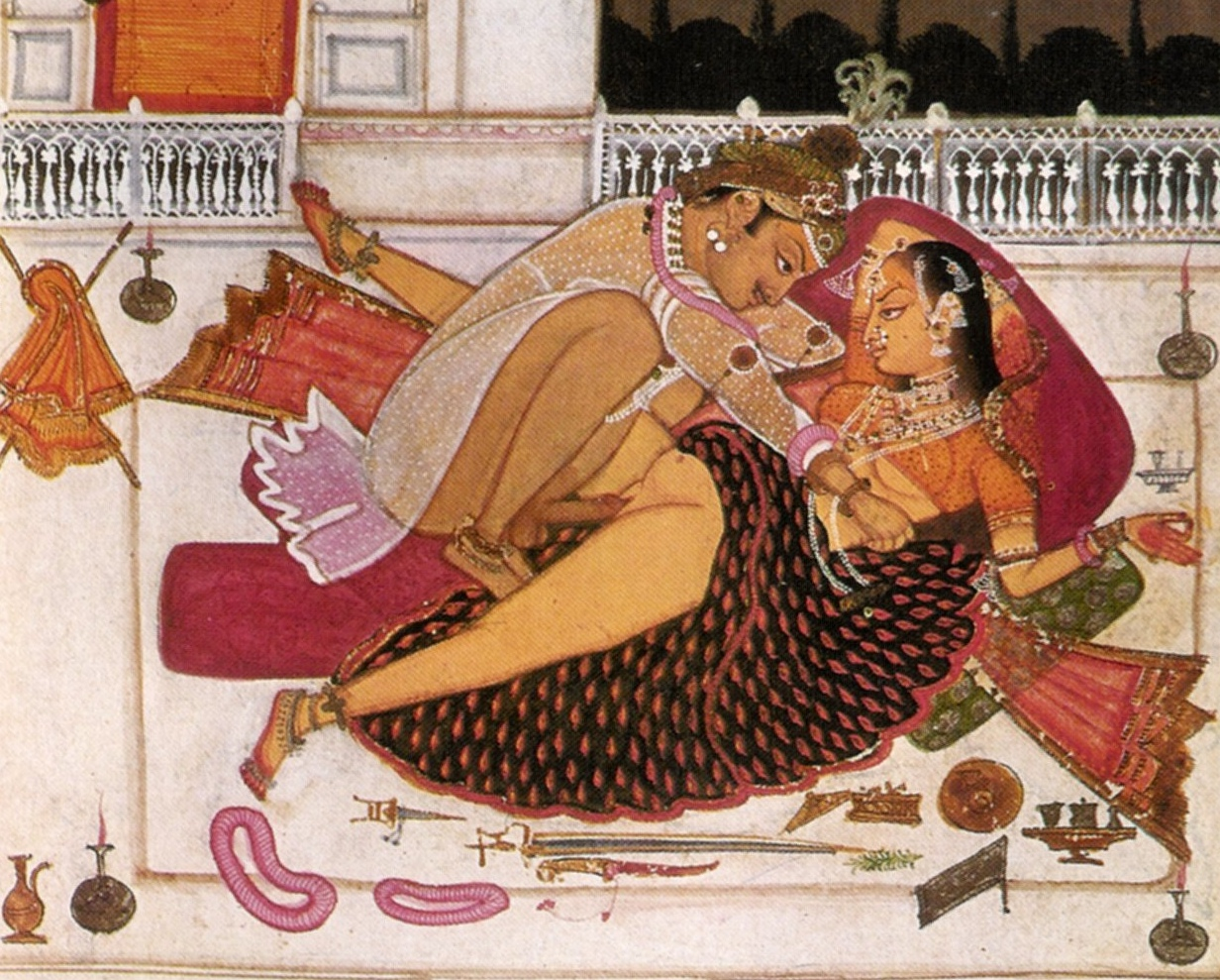 Prince and lady on terrace at night